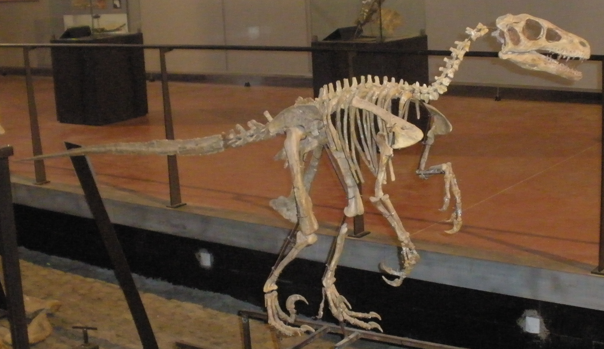 skeletal reconstruction of Variraptor mechinorum